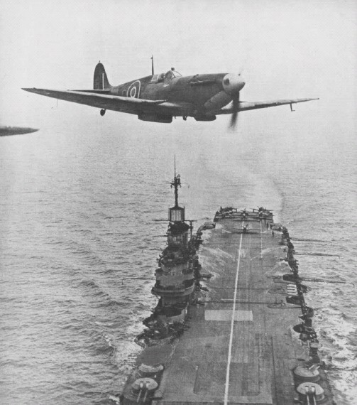 A Royal Navy Supermarine Seafire fighter flying over an Illustrious-class aircraft carrier in 1943.